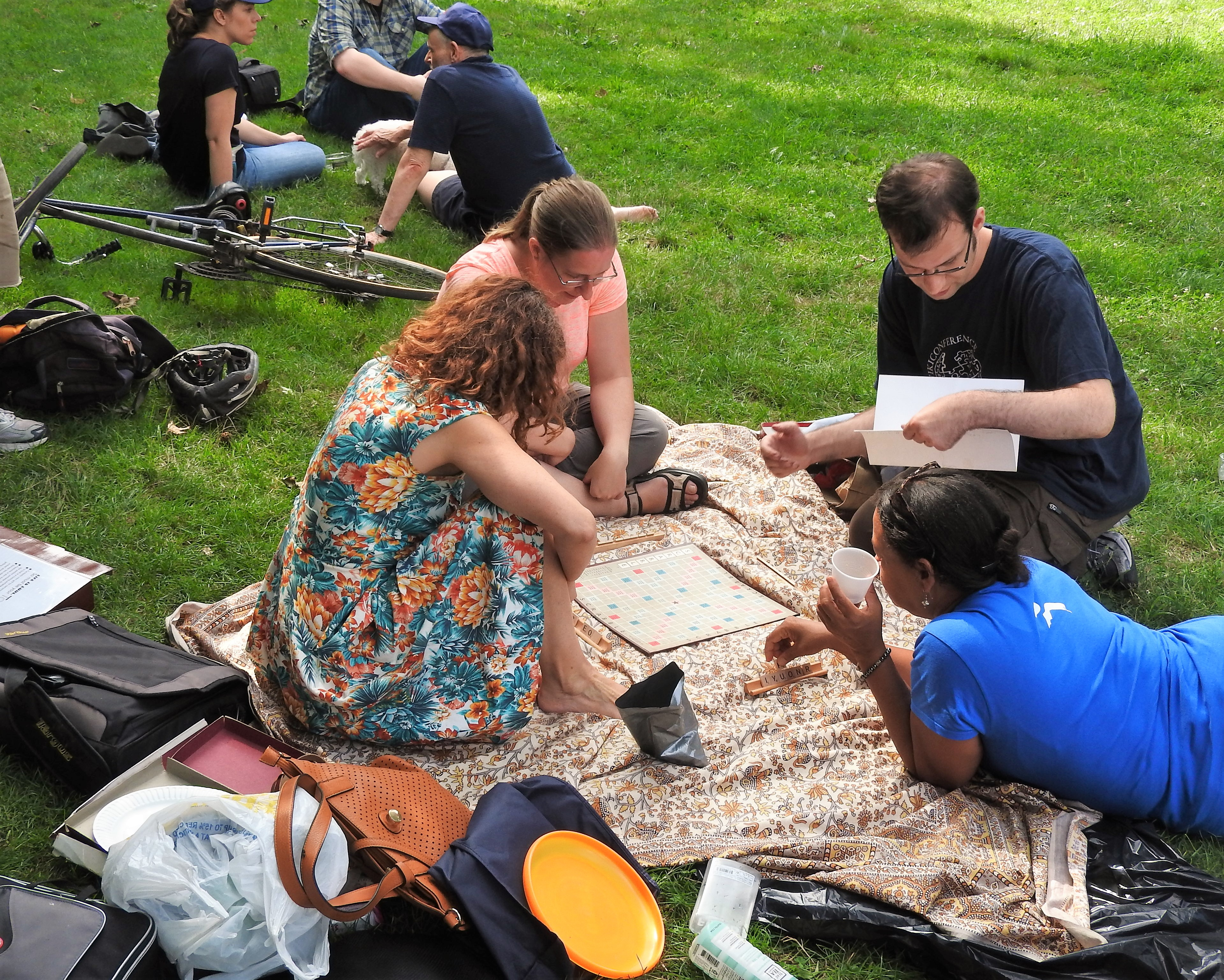 Even at a picnic, Wikipedians read